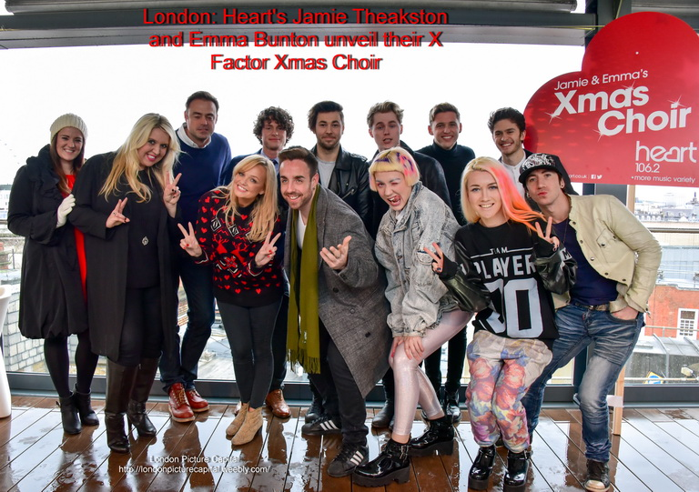 London,UK,12th December 2014 : Jamie Theakston, Emma Bunton and X Factor attends the London: Heart's Jamie Theakston and Emma Bunton unveil their X Factor Xmas Choir at Heart studios/Global in London. Photo by See Li